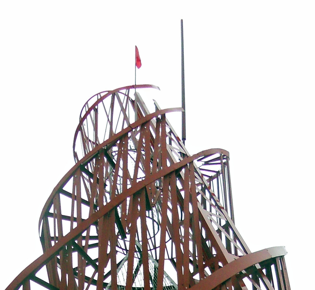 Tatlin's Tower at the Royal Academy of Arts.